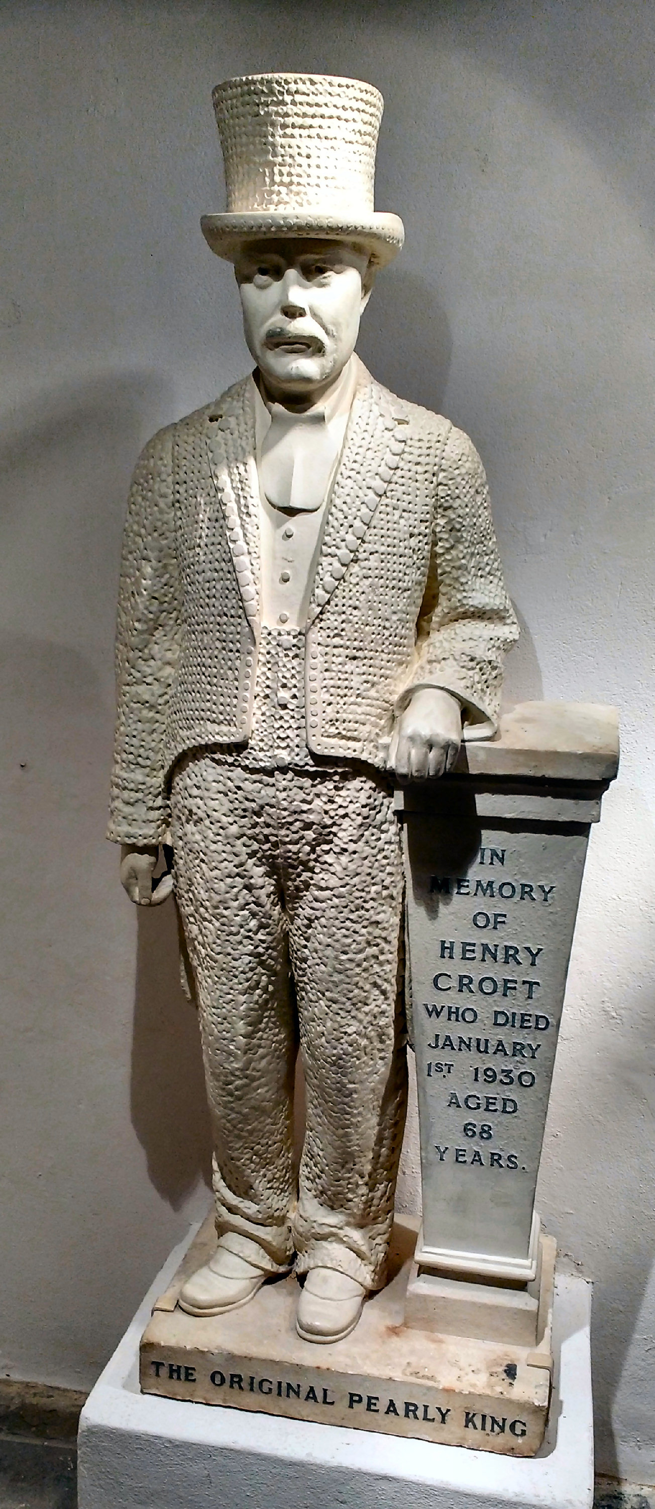 St Martin in the Fields, Henry Croft statue